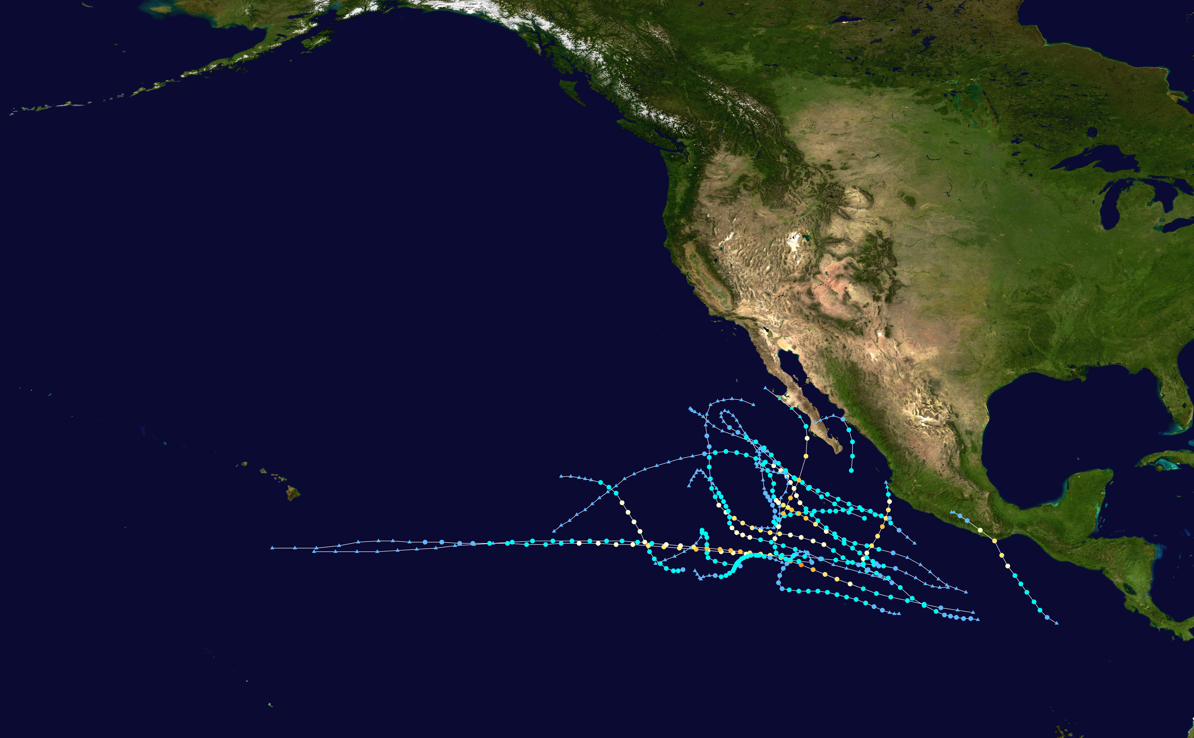 This map shows the tracks of all tropical cyclones in the 2012 Pacific hurricane season. The points show the location of each storm at 6-hour intervals. The colour represents the storm's maximum sustained wind speeds as classified in the Saffir-Simpson Hurricane Scale (see below), and the shape of the data points represent the type of the storm. Saffir–Simpson hurricane wind scale Tropical depression≤38 mph≤62 km/h Category 3111–129 mph178–208 km/h Tropical storm39–73 mph63–118 km/h Category 4130–156 mph209–251 km/h Category 174–95 mph119–153 km/h Category 5≥157 mph≥252 km/h Category 296–110 mph154–177 km/h Unknown Storm typeTropical cycloneSubtropical cycloneExtratropical cyclone / Remnant low / Tropical disturbance